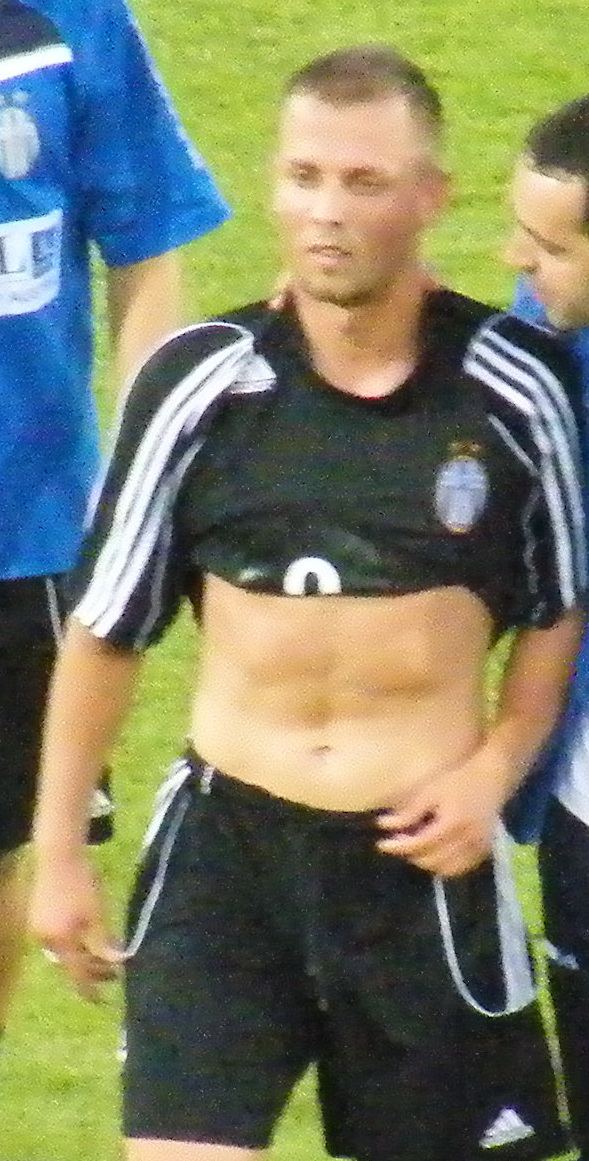 Sebino Plaku Albanian football player